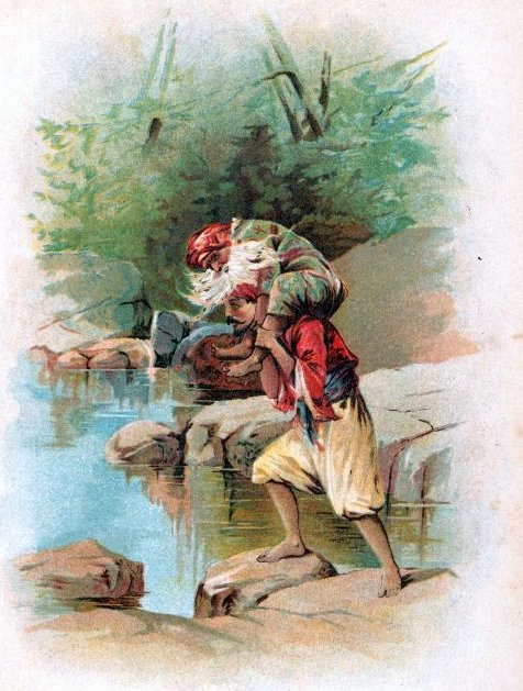 Close Description Details Image Details Image Title Sinbad the sailor. Creator Brundage, Frances, 1854-1937 -- Artist Published Date 1898 Medium Chromolithographs Specific Material Type prints Item Physical Description 1 print : chromolithograph, col. ; 16.5 x 12 cm. Original Source From The Arabian nights' entertainments. (Boston DeWolfe, Fiske & Co 1898) Townsend, George Fyler (1814-1900), Author. Source Children's book illustrations / Book illustrations -- Arabian nights Source Description 1 folder (35 pictures) Location Mid-Manhattan Library / Picture Collection Catalog Call Number PC-CHI BOOK-Ara Digital ID 1704081 Record ID 1875684 Digital Item Published 9-16-2009; update 10-23-2011